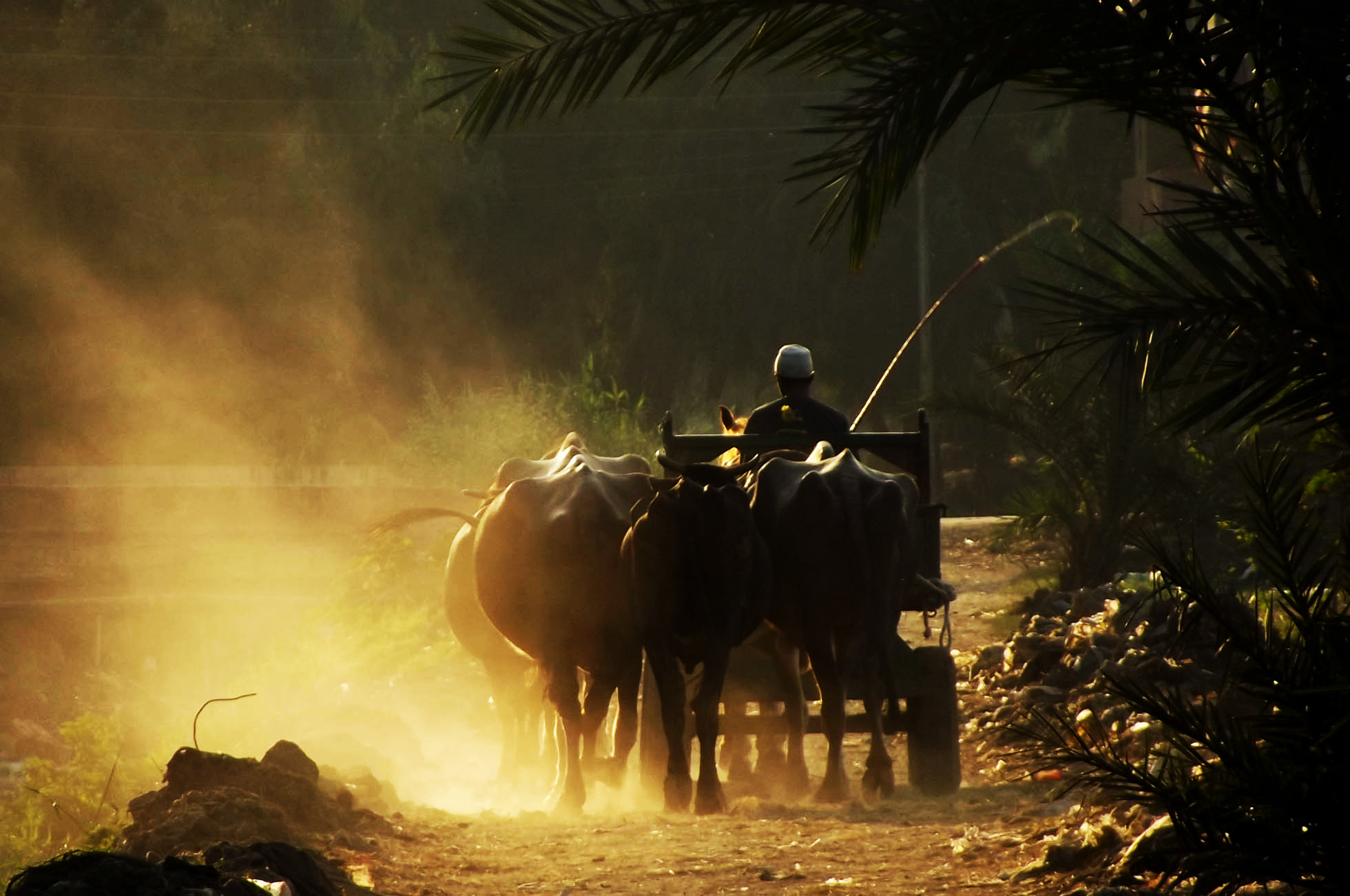 Farmer in Shubra Khit, Egypt